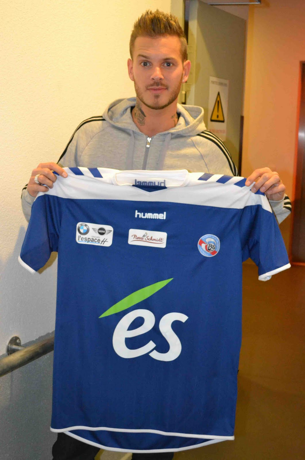 Matt Pokora supports RC Strasbourg in 2011